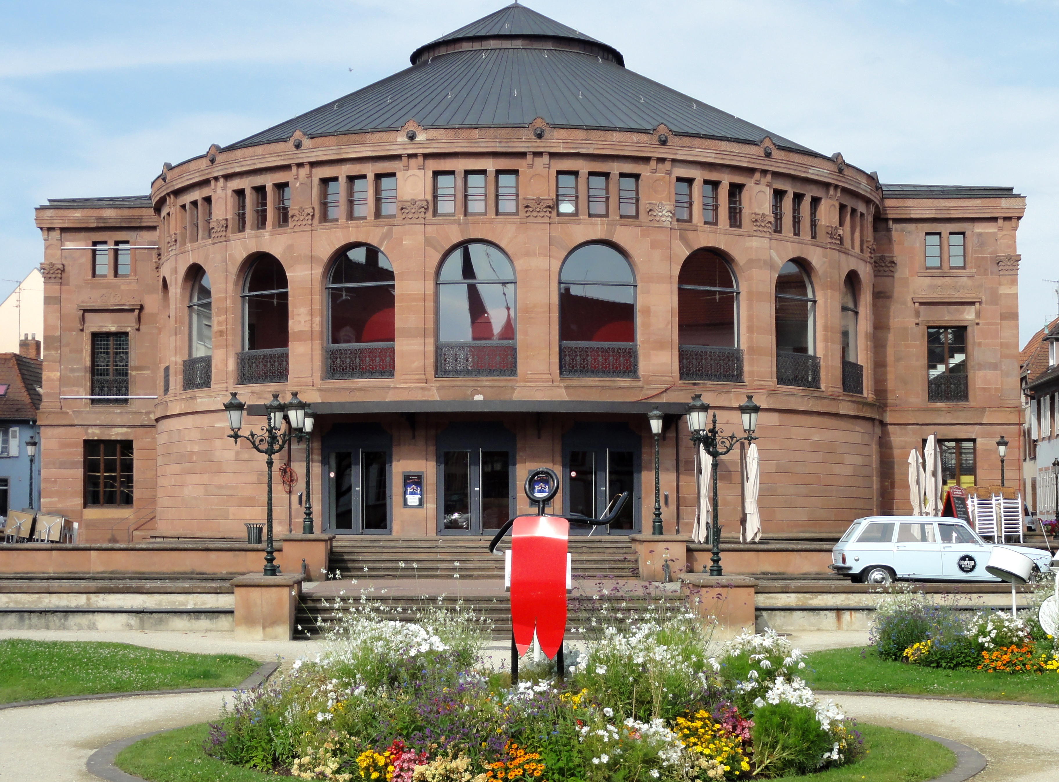 Alsace, Bas-Rhin, Haguenau, Théâtre municipal (1846): It is indexed in the Base Mérimée, a database of architectural heritage maintained by the French Ministry of Culture, under the references PA00135144 and IA00061934 .